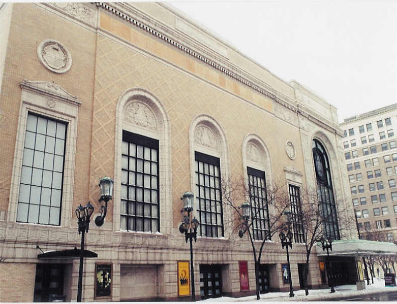 Powell Symphony Hall, located in St. Louis, Missouri, USA. Opened 1925, rebuilt 1968.